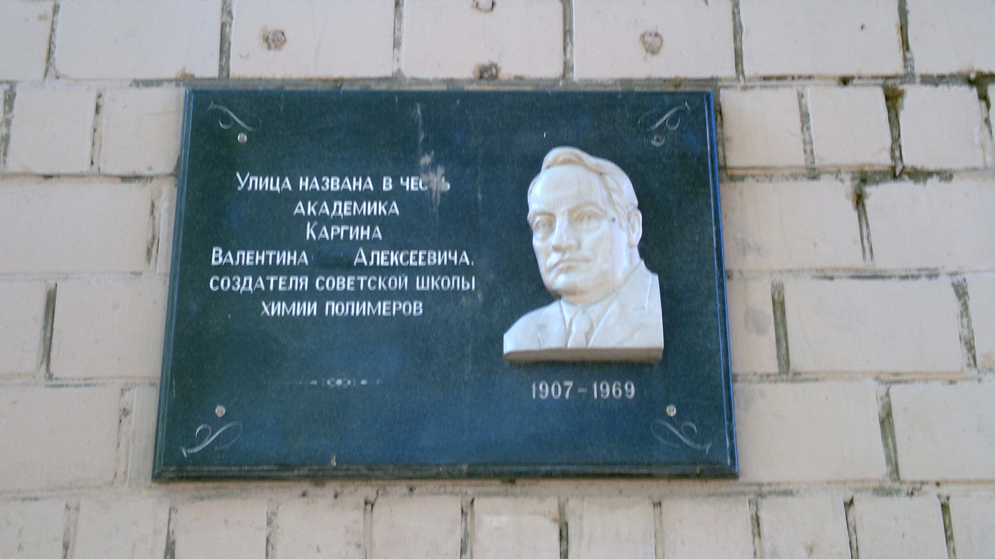 Academy Kargin Street of Mytishchi (Moscow region) memorial plaque dedicated to Valentin Kargin who is named in the street